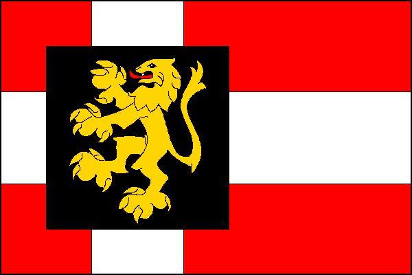 Municipal flag of Strážnice town, Hodonín District, Czech Republic.